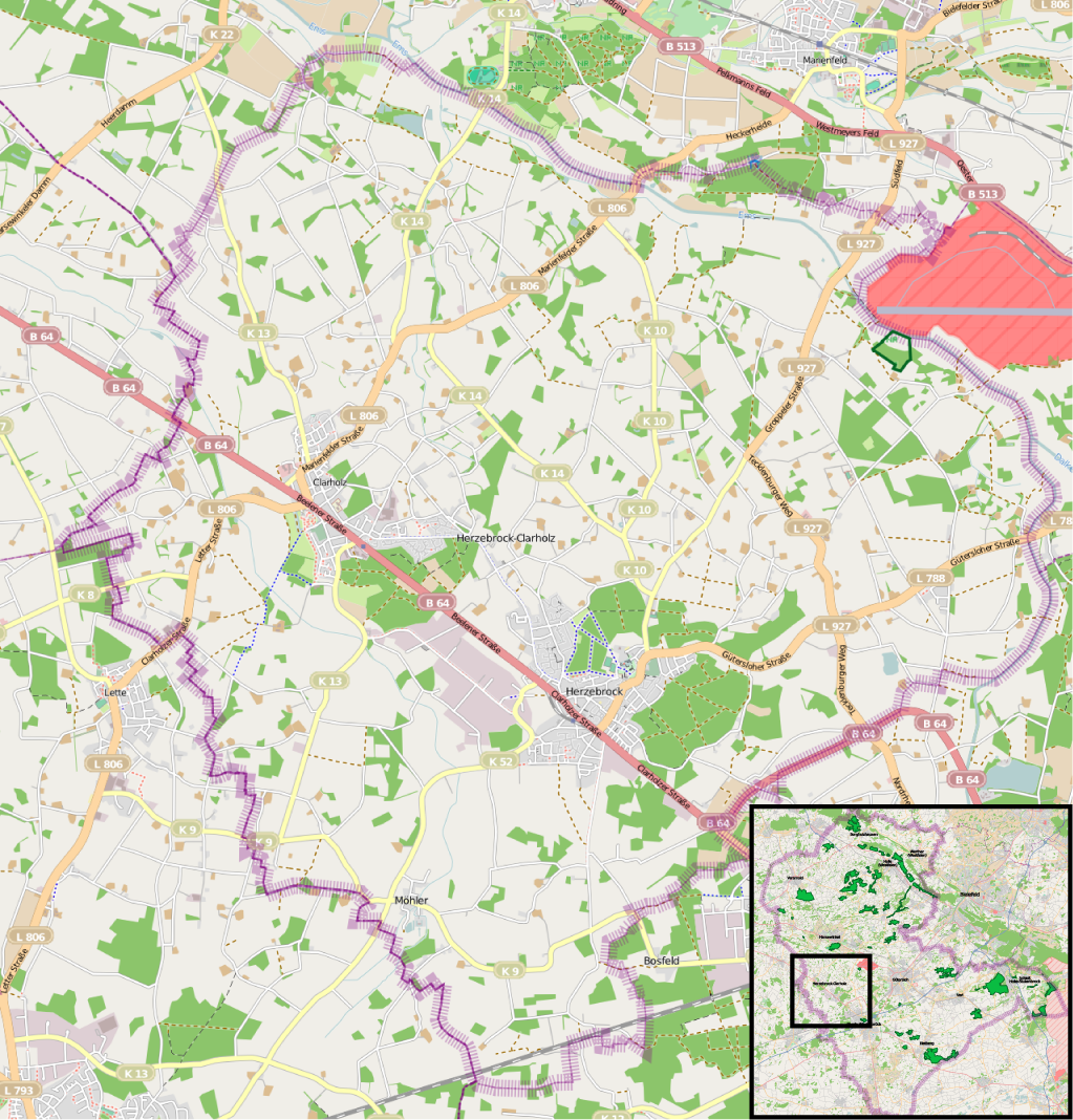 Nature reserves in Herzebrock-Clarholz - overview map Number and borders of nature reserves are subject to frequent change. In order to facilitate reproduction of this map from openstreetmap, the following data is stored here: export boundaries: north: 51.995; west: 8.14 south: 51.839; east: 8.32 mapnik svg, scale 1:70.000 nature reserve boundary stroke weight 3.5; nature reserve stroke color: R 5, G 102, B 36; district border stroke weight: 20